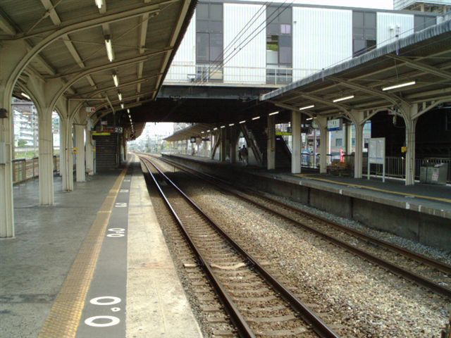 Platform of Senrioka Station(Photograpy:Nozomikobe/4 Jun,2006)